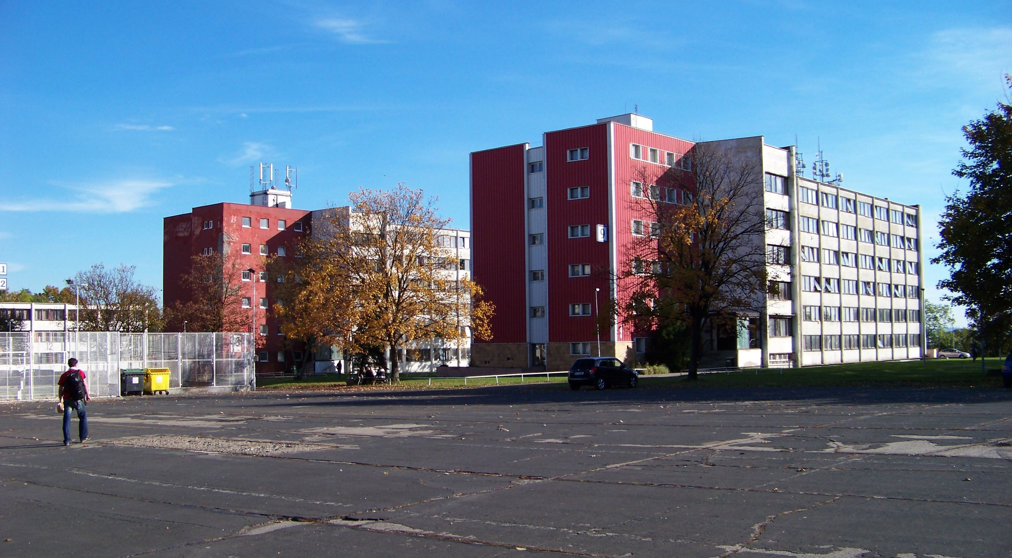 Prague-Břevnov, the Czech Republic. Strahov Student Dormitories. - OpenStreetMap(Info)